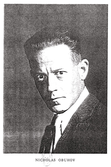 The scan from the C.Larronde's book "Livre de Vie de Nicolas Obouchow". Paris (1930-1931). Photographer is unknown, book author and man on the photo are not alive, the publisher does not exists.